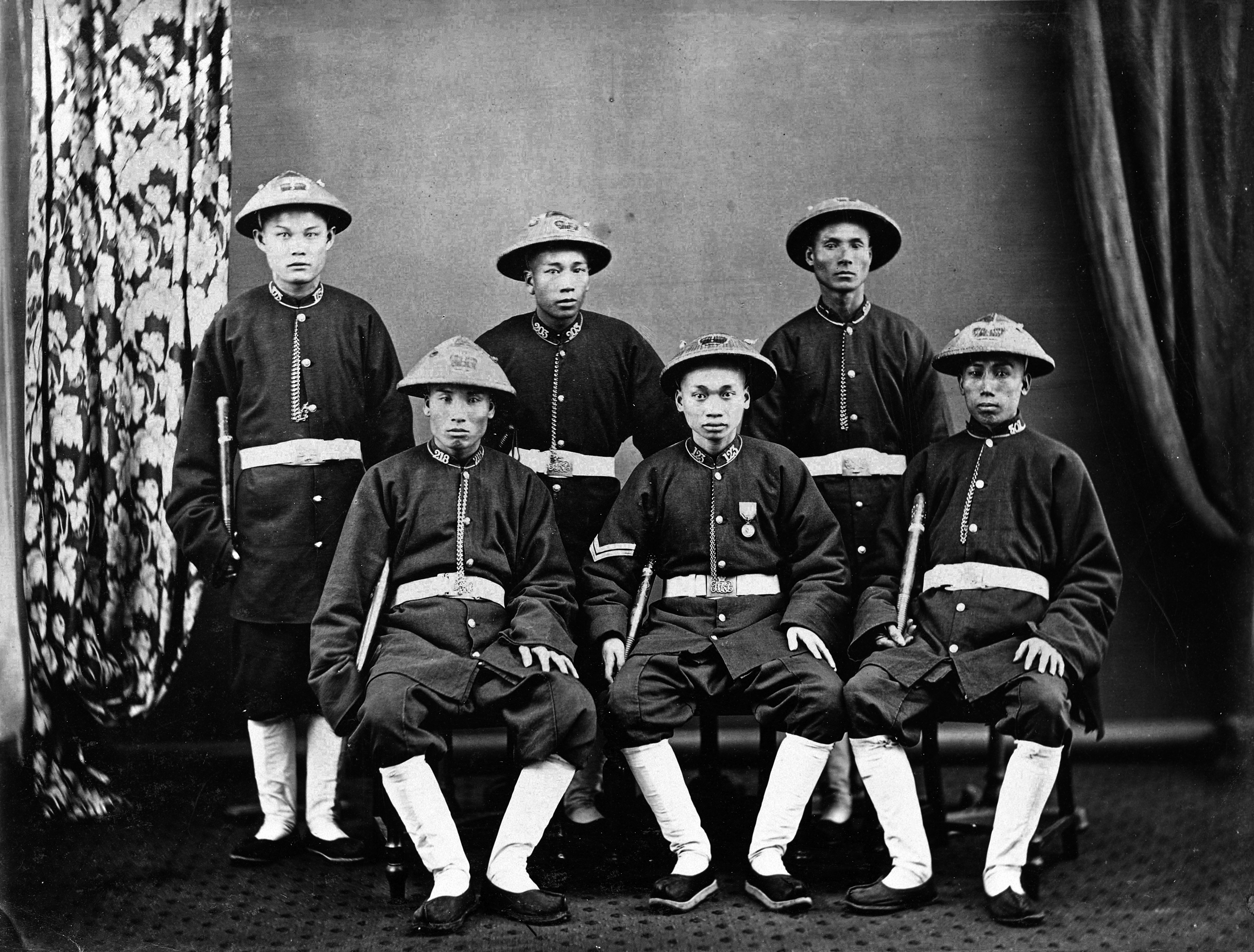 Photograph in People and views of China.